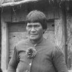 Rahui Te Kiri Tenetahi and family were in dispute regarding their interests in Little Barrier Island. In 1896 they were evicted. Here with her daughter Ngapeka on her island in 1893.